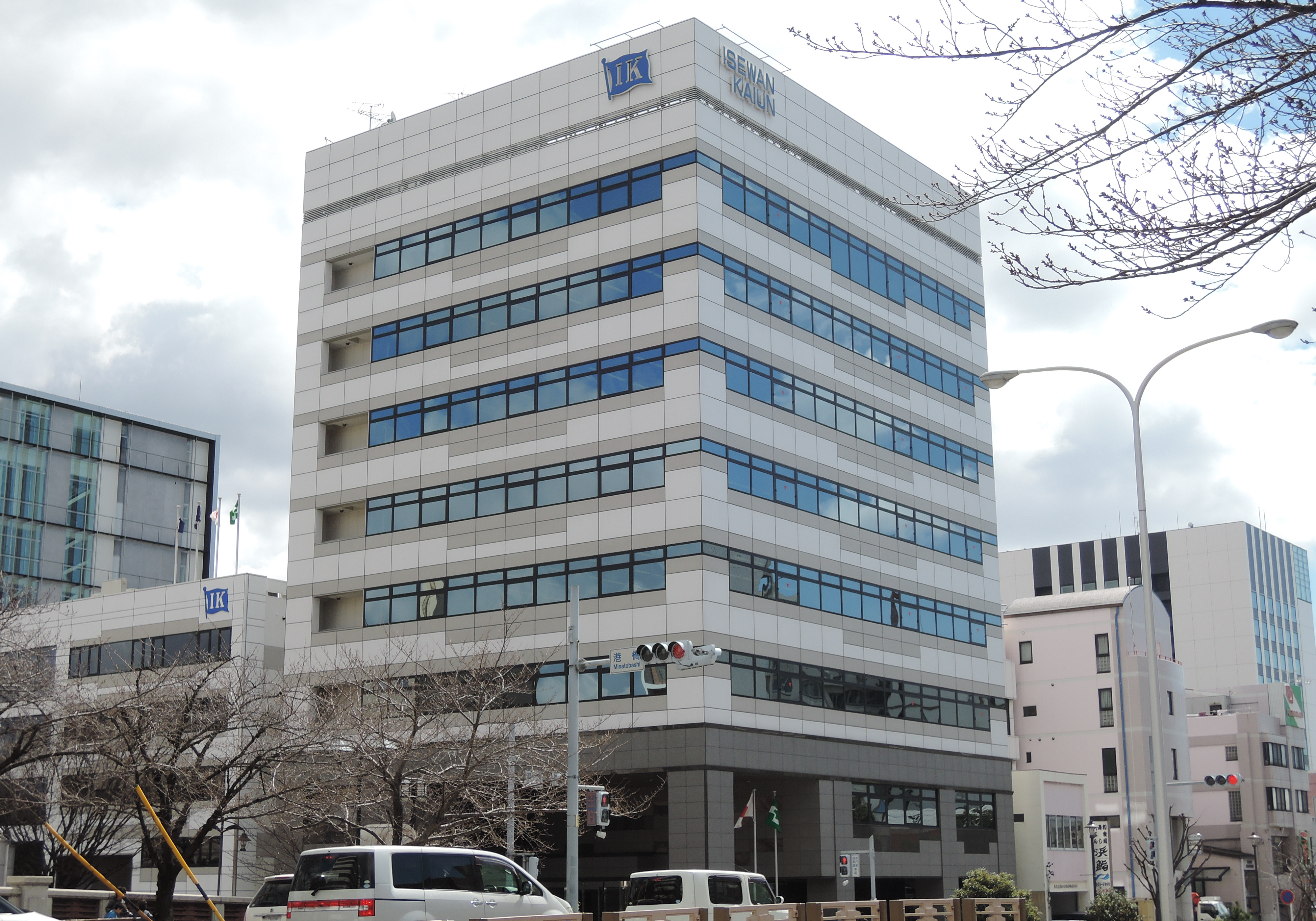 Headquarters of ISEWAN TERMINAL SERVICE CO., LTD,Aichi prefecture,Japan